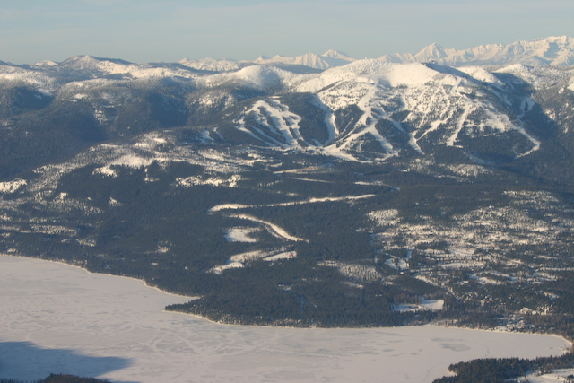 Aerial view of Whitefish Mountain Resort, a ski resort located on Big Mountain, near Whitefish, Montana since 1947.